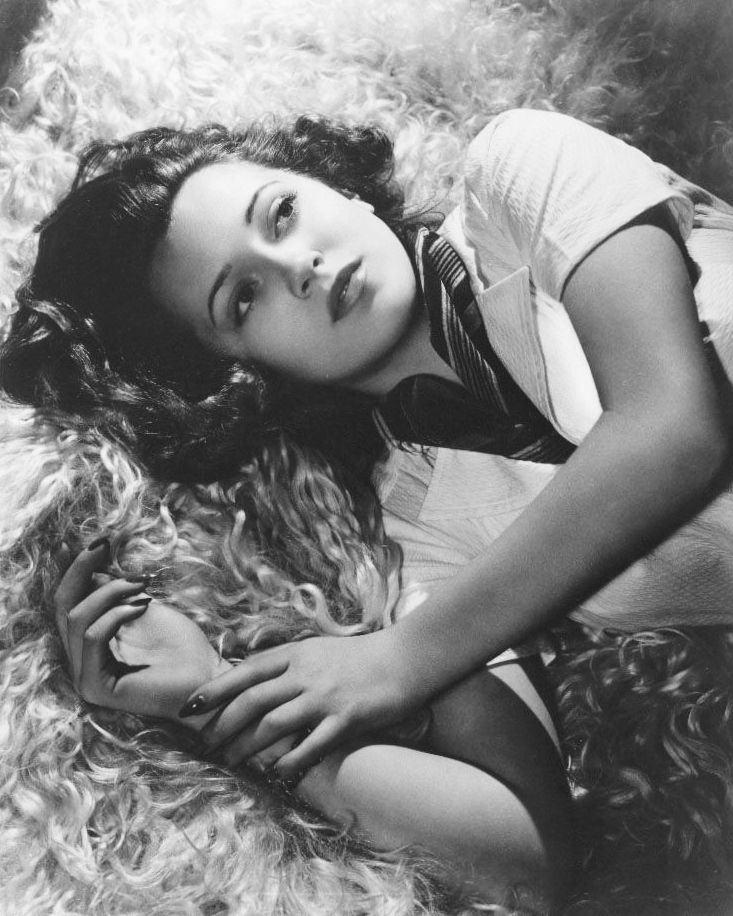 Turner in a 1937 publicity headshot for MGM